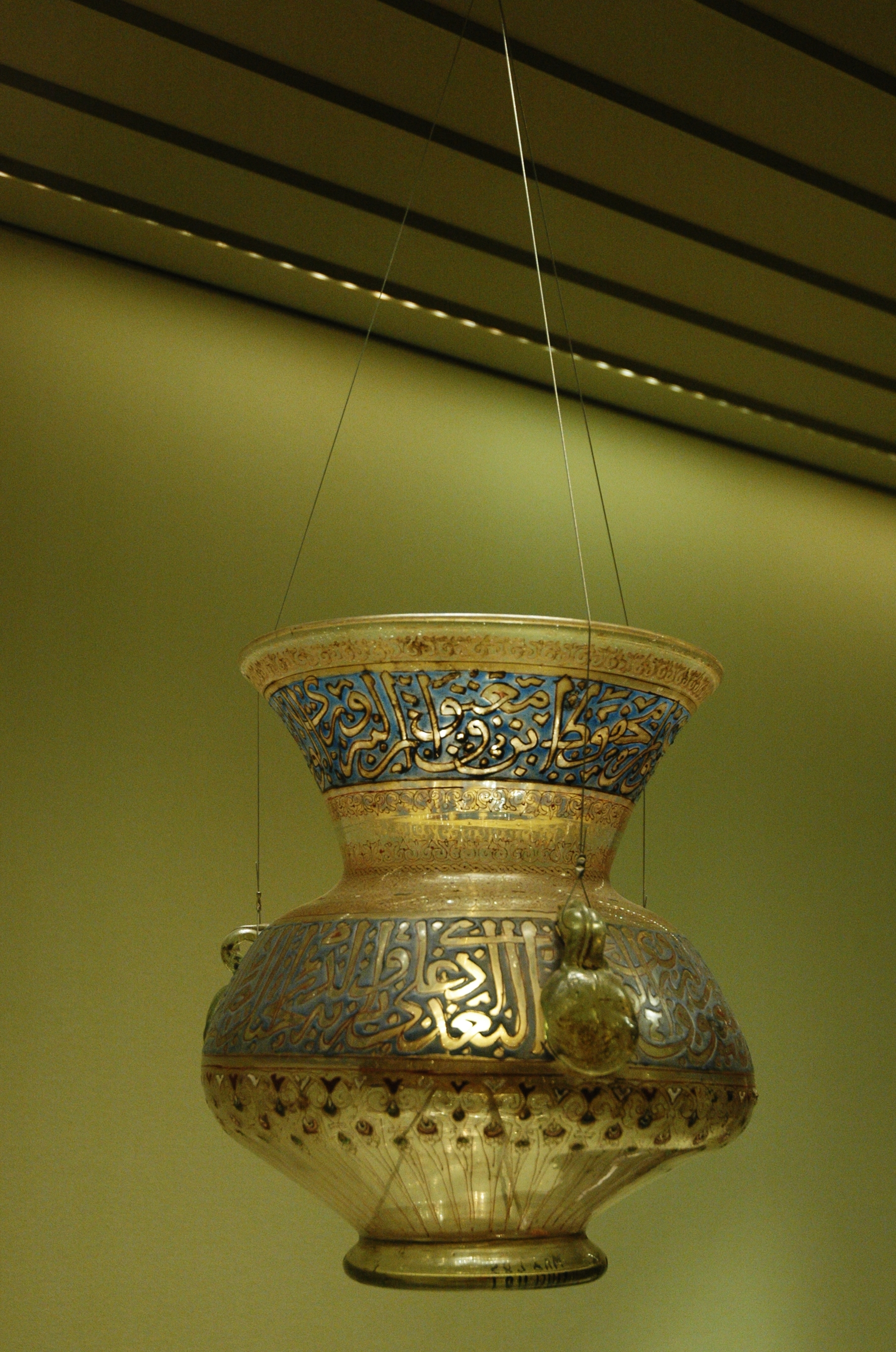 Lamp bearing the name of Sultan al-Malik an-Nasir ad-Din Muhammad ibn Qala'un (1294–1340). The neck bears the beginning of the verse of light, the 35th verse of the sura an-Nur (“Light”) of the Qur'an: “Allah is the Light of the heavens and the earth. The Parable of His Light is as if there were a Niche and within it a Lamp: the Lamp enclosed in Glass: the glass as it were a brilliant star”.